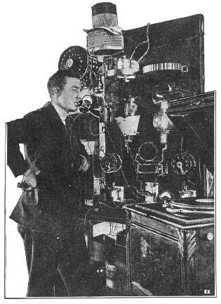 Charles Logwood broadcasting at radio station, 2XG, New York City, from "Election Returns Flashed by Radio to 7,000 Amateurs", page 650 of the January, 1917 The Electrical Experimenter